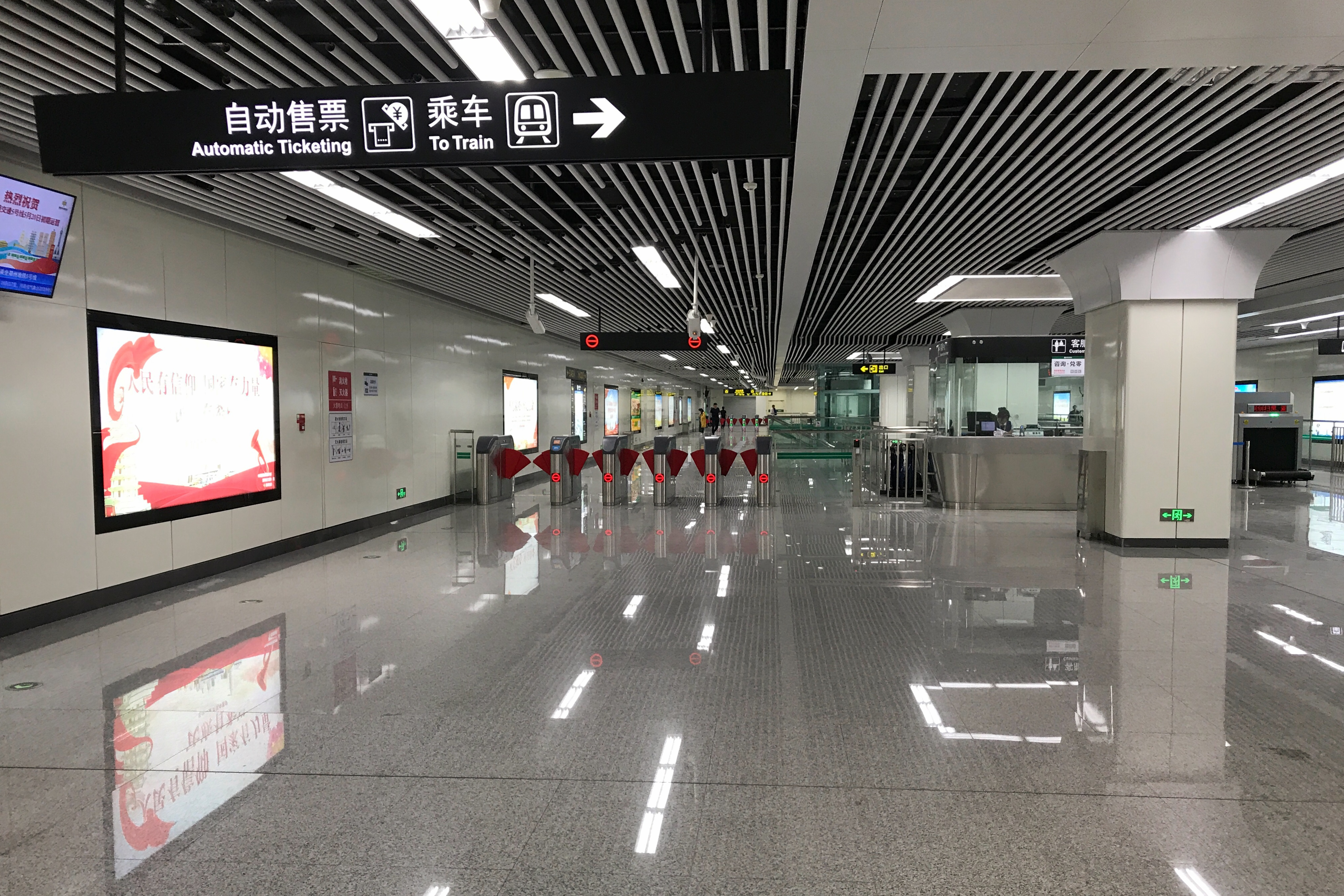 Concourse at Jinshuidonglu Station